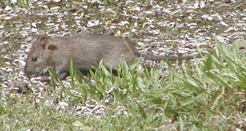 Rat (Rattus norvegicus) eating sunflower seads that I put out for the birds. Author: Martin Hvidberg, Denmark Source: I took this picture. Time and place: My garden, Denmark. 13. April 2008